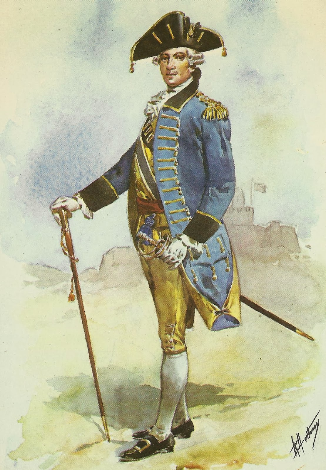 Officer of the Royal Engineers Corps (Portugal), in 1762. 19th-century watercolor by Ribeiro Artur.